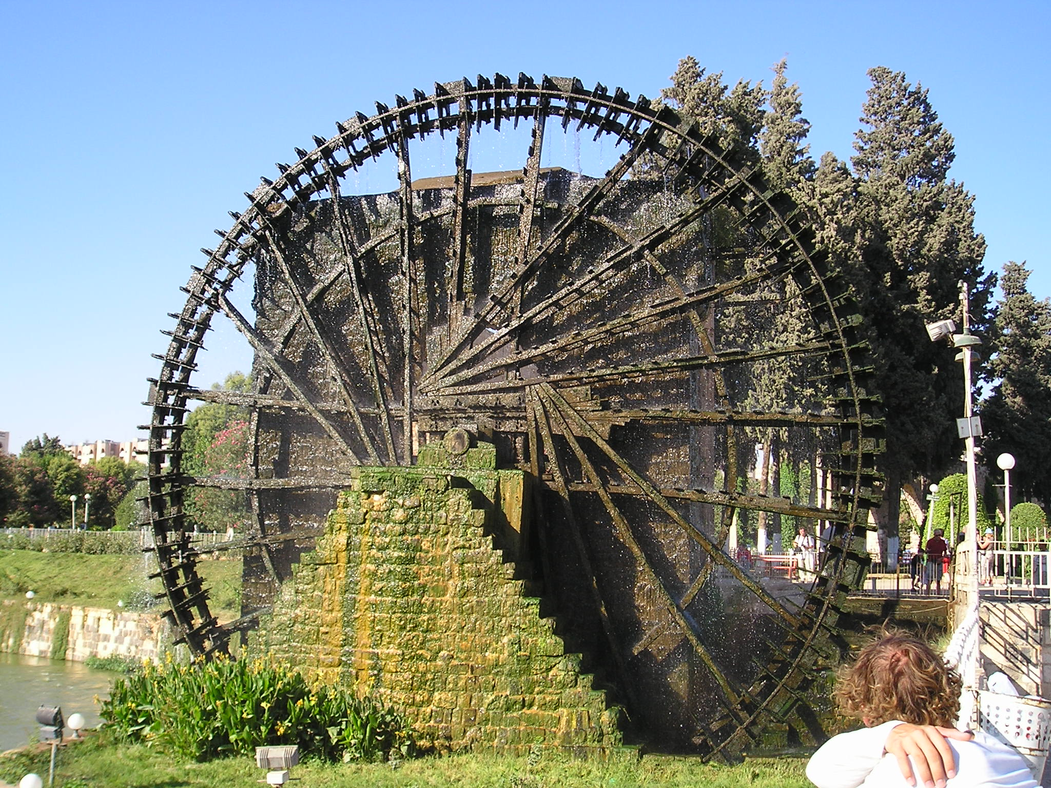 Hama, Syria - a noria at the town's park.